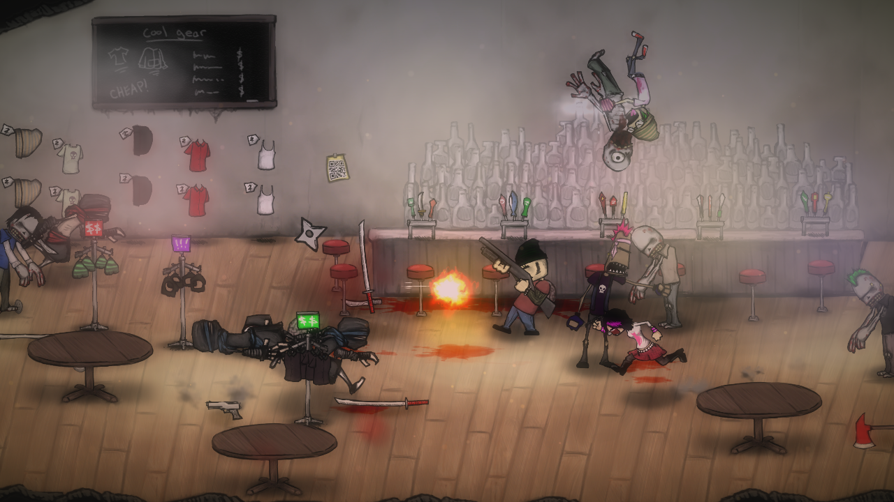 Screenshot from the video game Charlie Murder